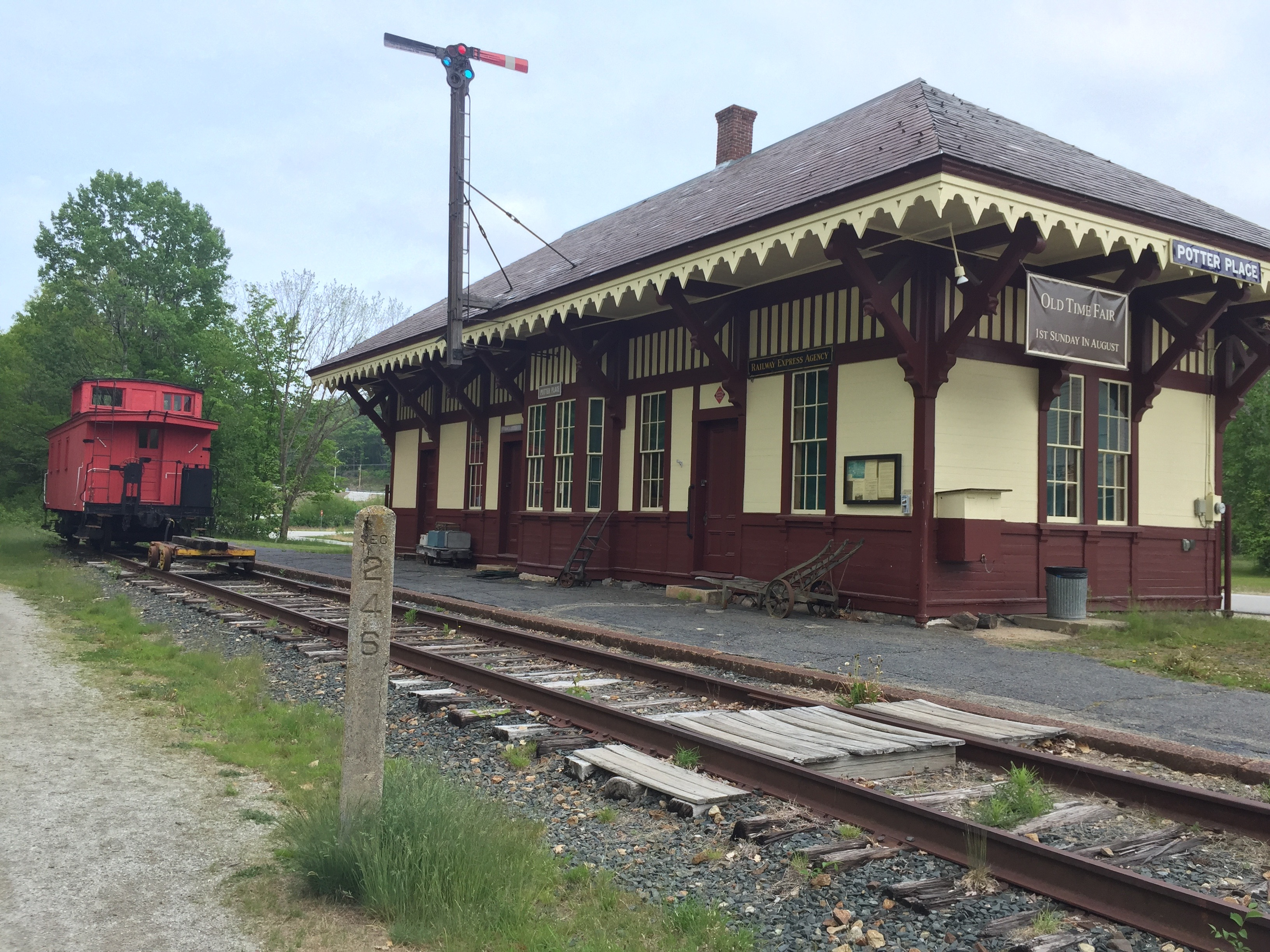 Potter Place Railroad Station, Andover, New Hampshire, May 2016